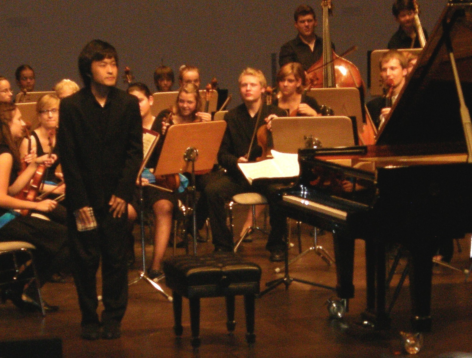 The South Korean pianist Da Sol Kim at a concert in the 'Category:Nikolaisaal' at Potsdam, Germany.